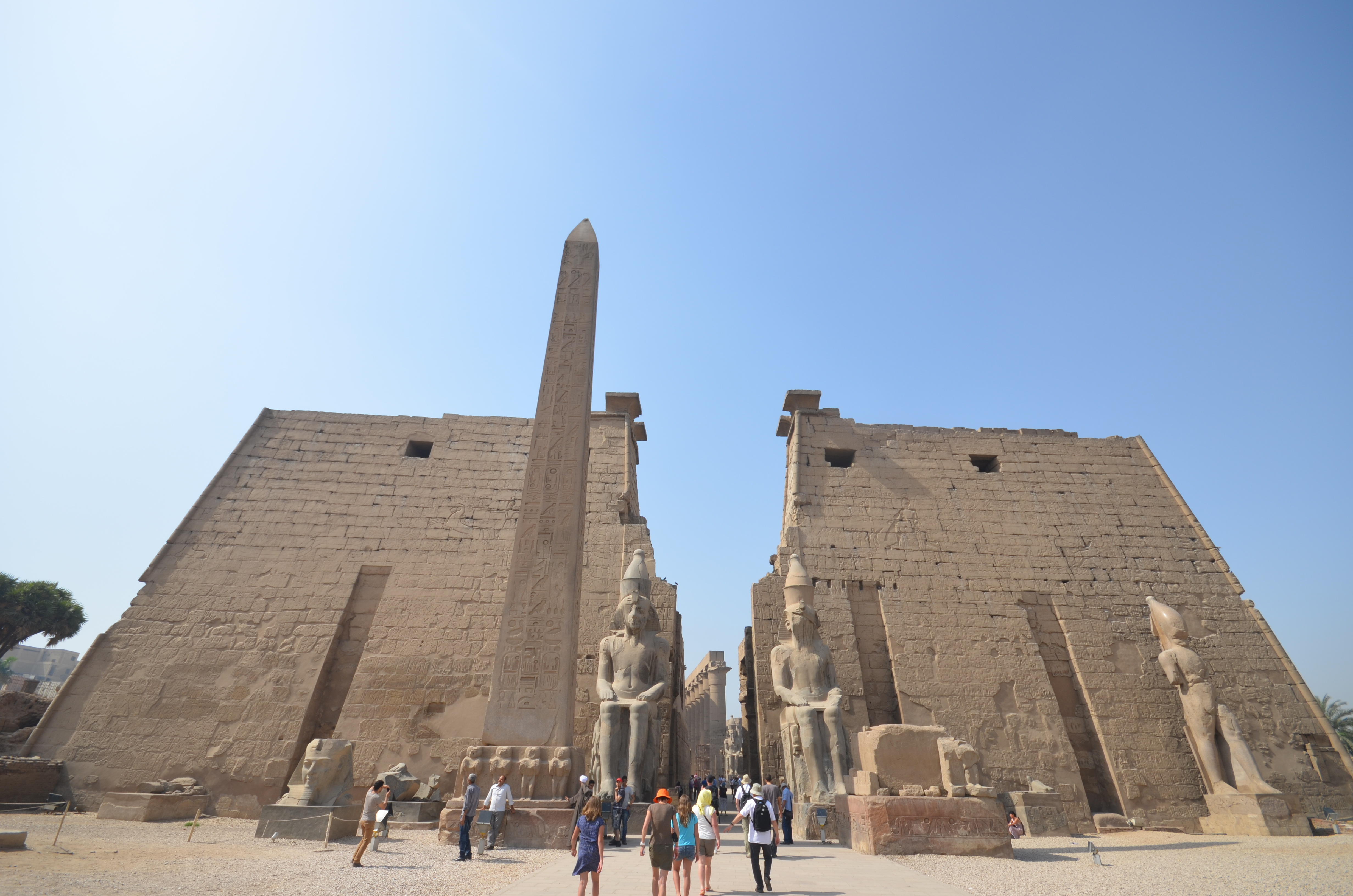 Luxor Temple